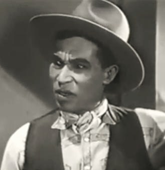 Steve Clemente in The Murder in the Museum - cropped screenshot